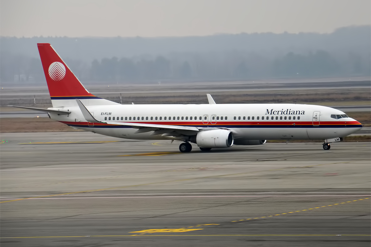 Meridiana, EI-FLM, Boeing 737-85F at Milan Malpensa Airport